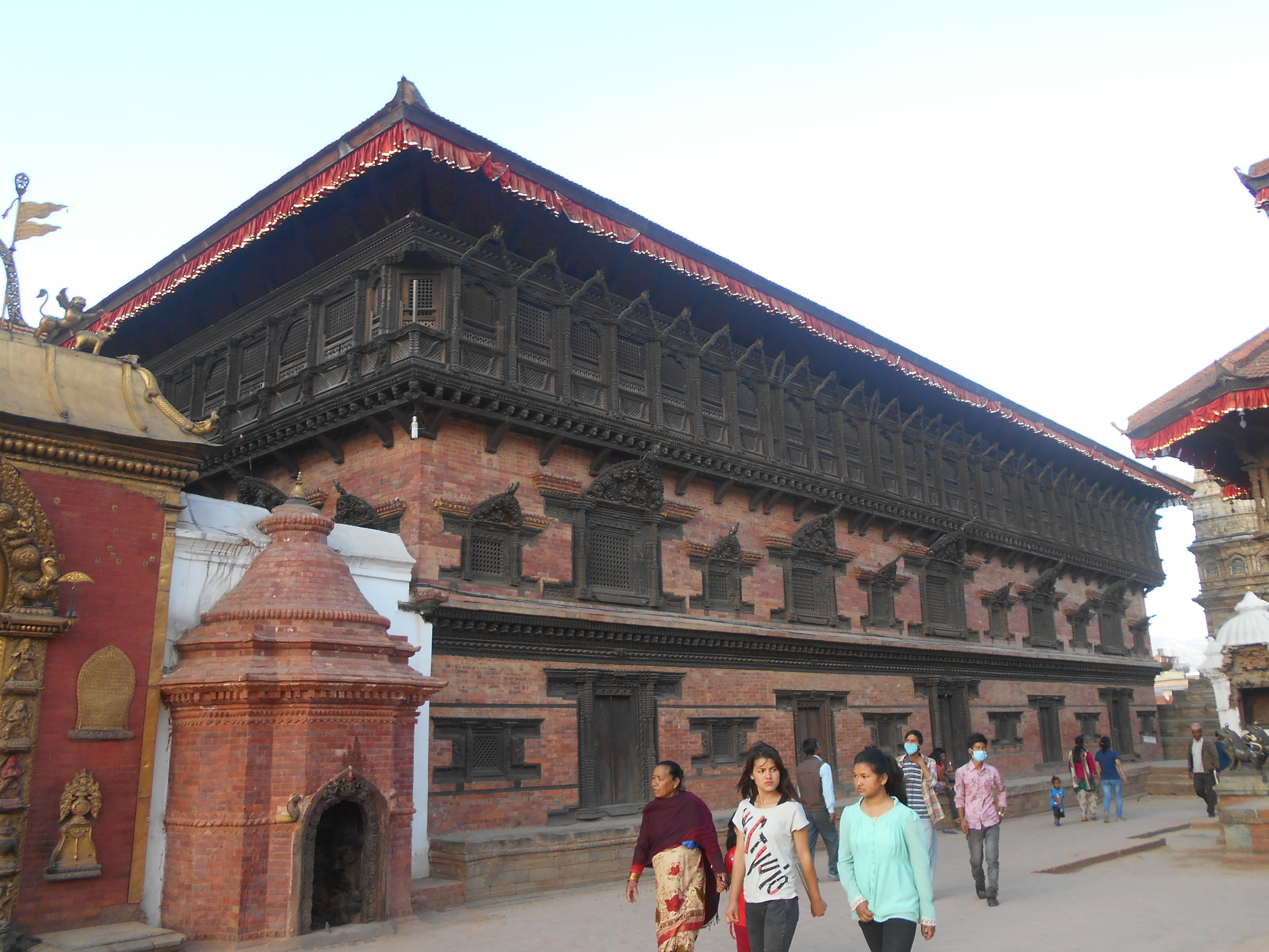 Earthquake Nepal 2015